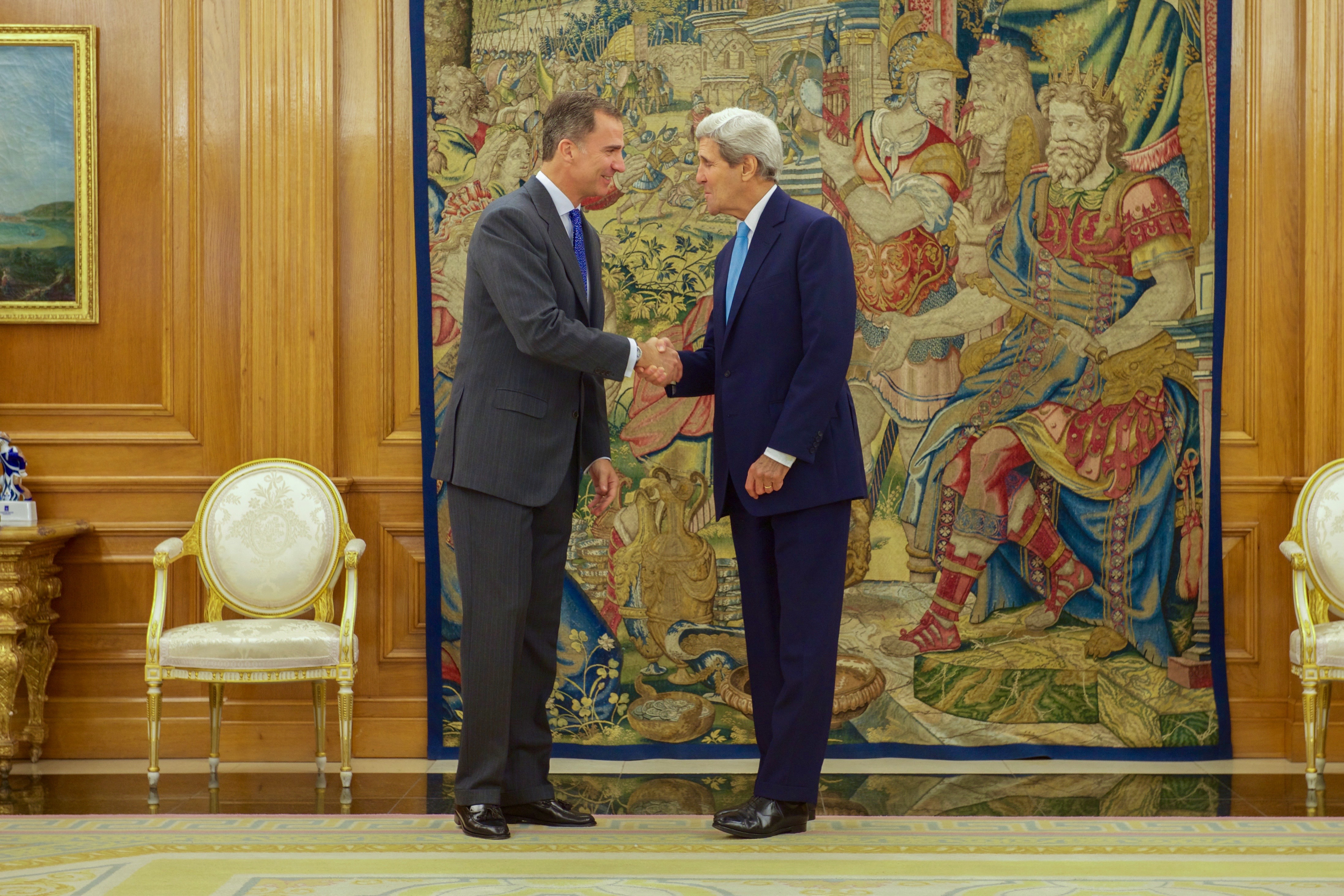 King Felipe VI of Spain greets U.S. Secretary of State John Kerry before their bilateral meeting at the Zarzuela Palace in Madrid, Spain, on October 19, 2015. [State Department photo/ Public Domain]